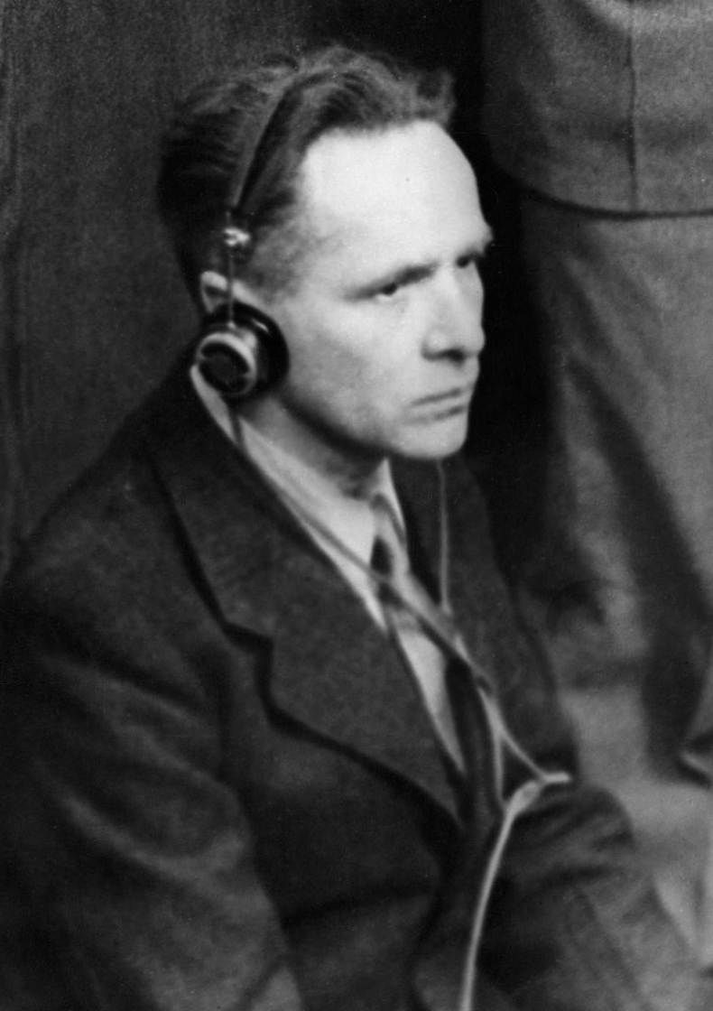 Hoess in the Nuremberg trial.